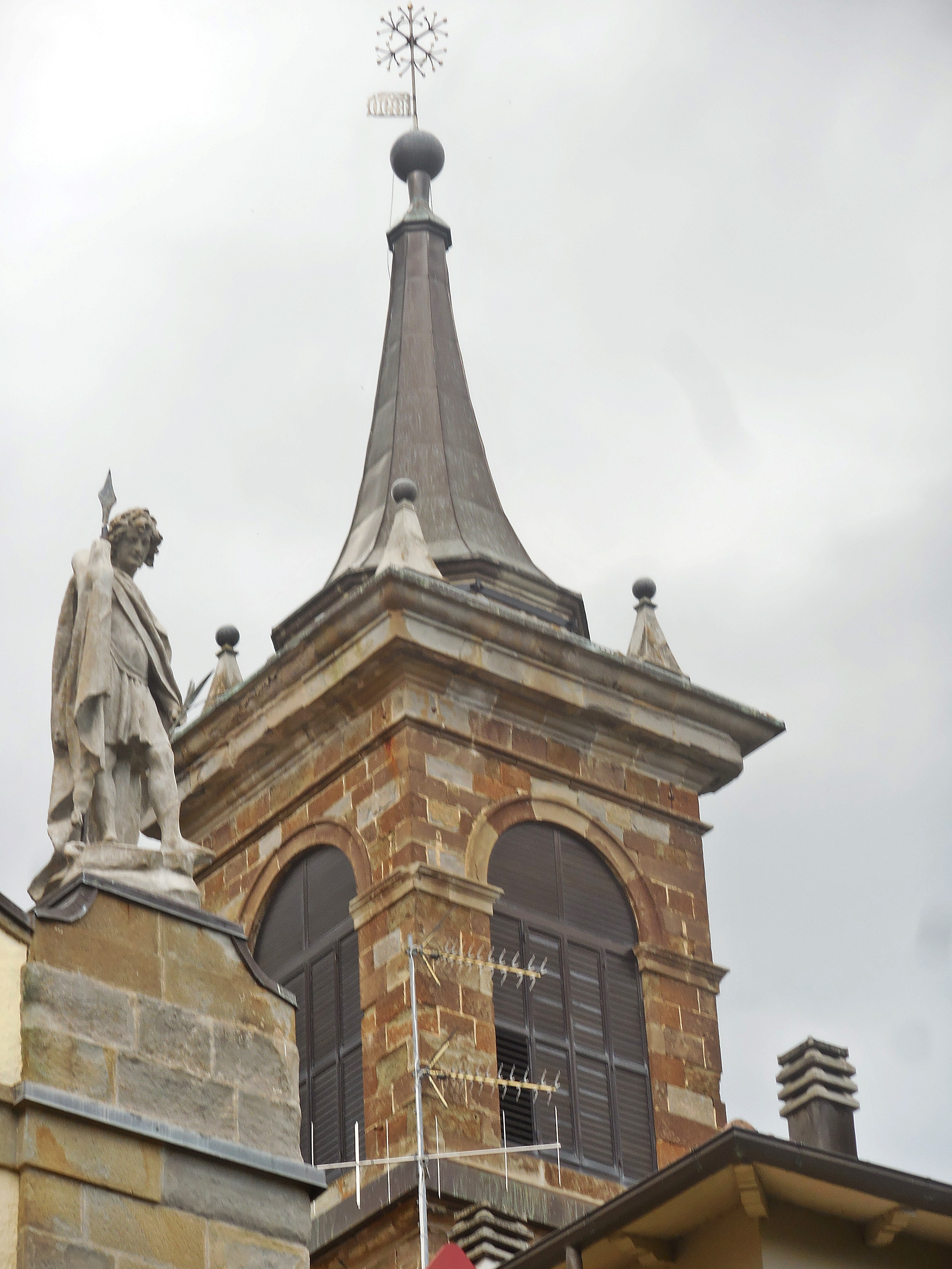 SS Michael & Nazarius (Gaggio Montano)